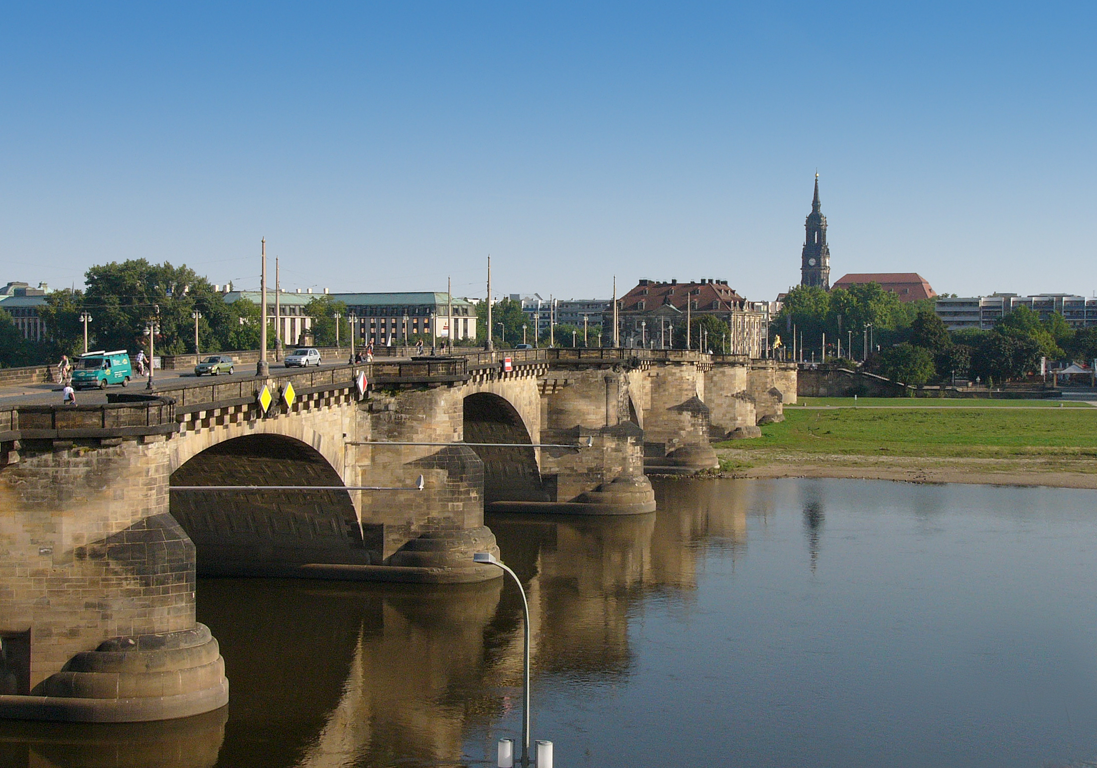 The Augustus Bridge is one of four bridges crossing the river Elbe in the city of Dresden, Saxony, Germany.